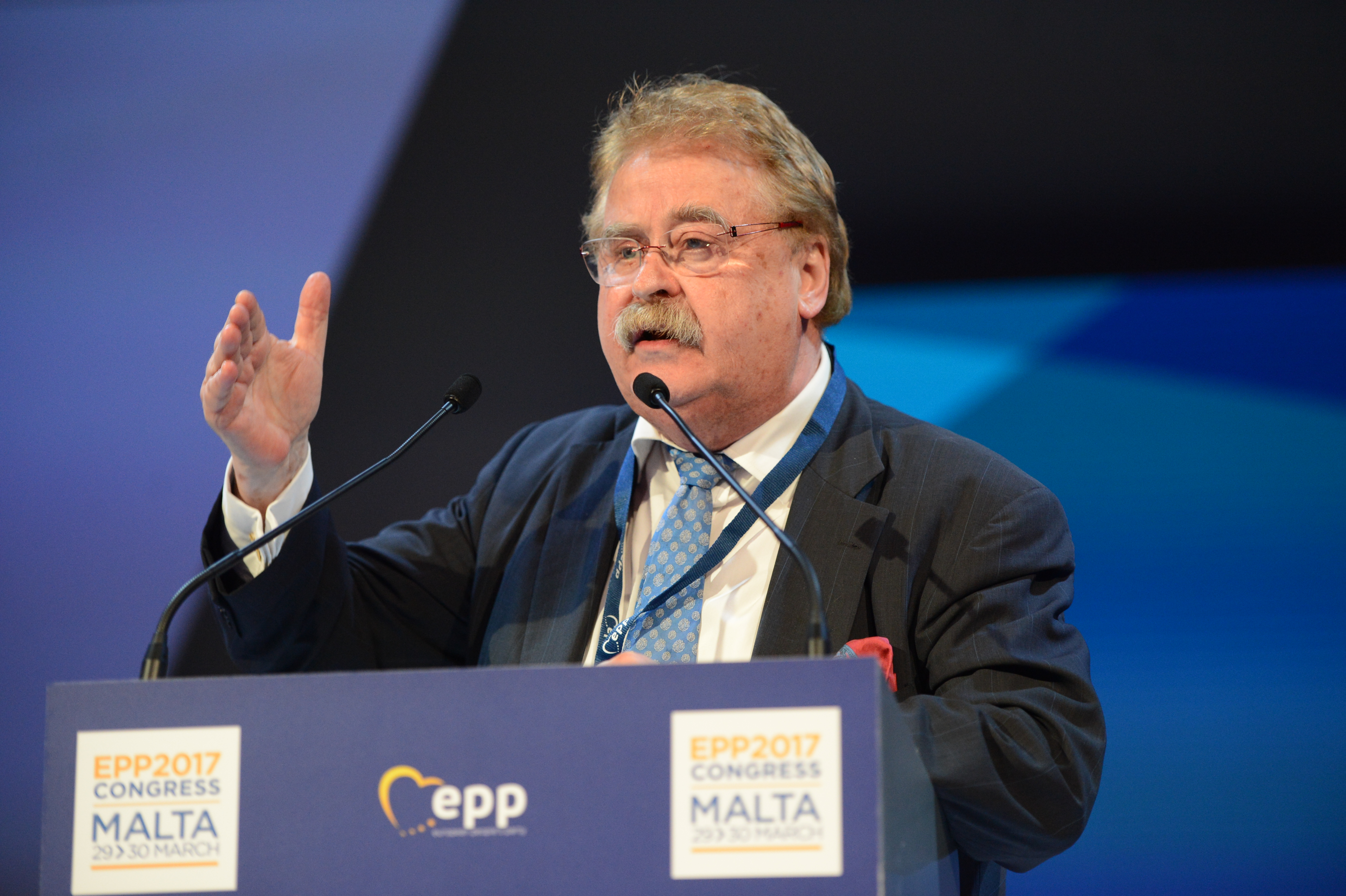 EPP Malta Congress 2017 ; 29 March